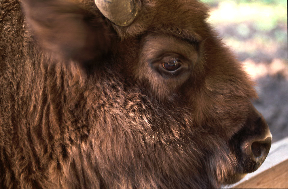 A close-up of wisent (żubr) photographed in Białowieża, Eastern Poland